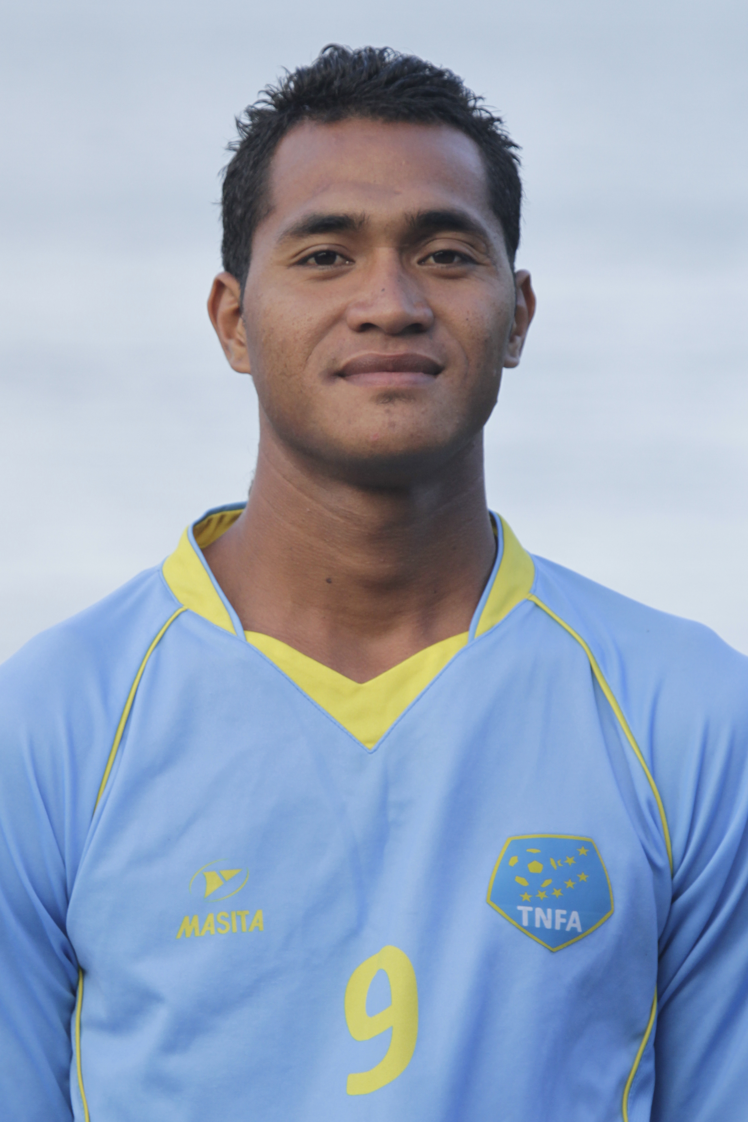 Lutelu_Tiute